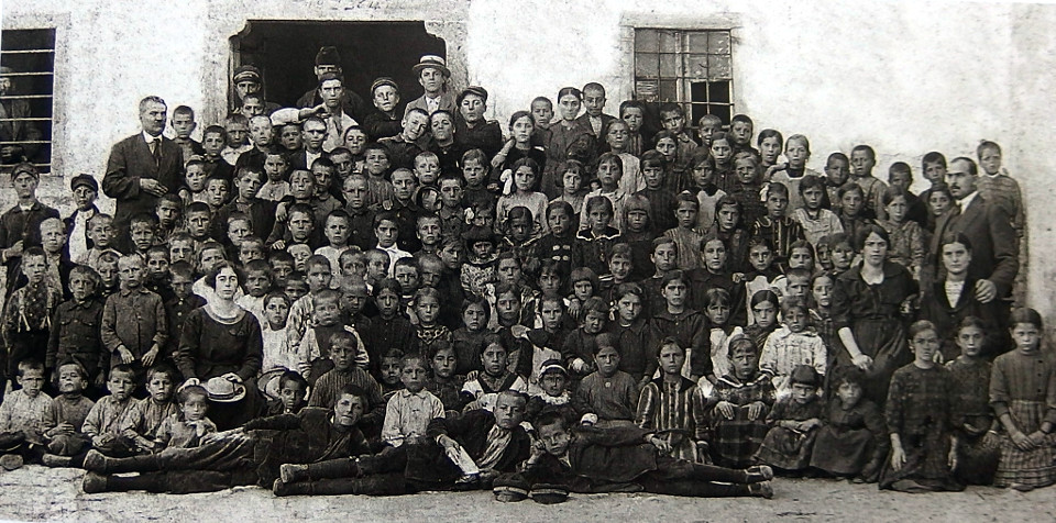 Greek School in Neveska, circa 1910